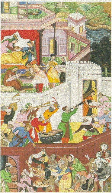 Rejoicing at birth of Prince Salim (Jahangir). Mughal, c. 1590.